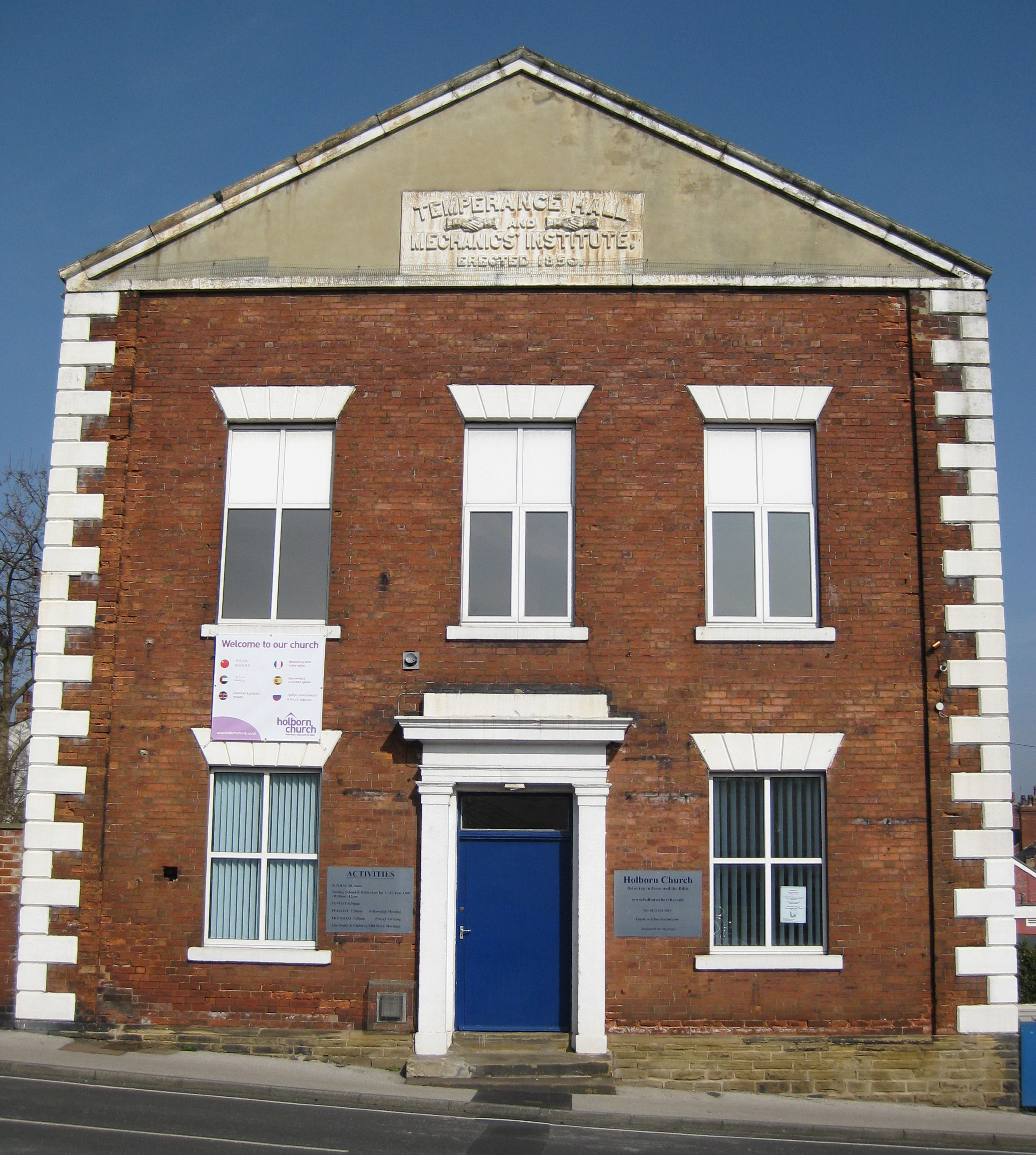 Holborn Church, 62 Holborn Approach (formerly Institution Street), Woodhouse, Leeds LS6 2PD. Former Temperance Hall and Leeds Mechanics' Institute, built 1850